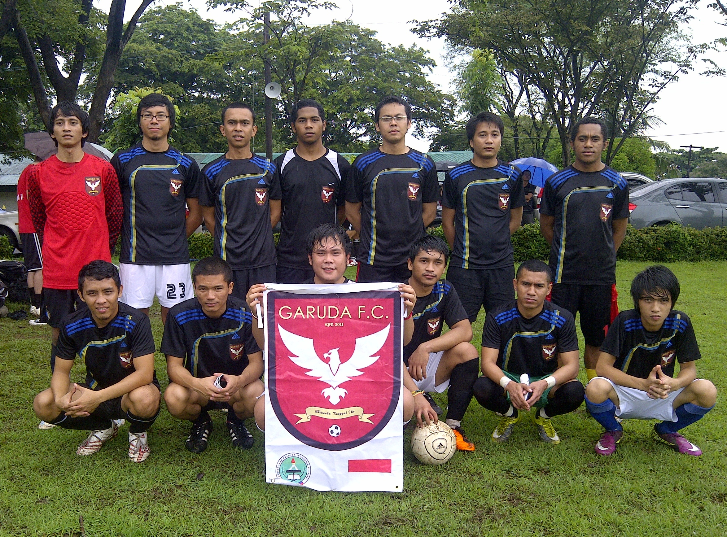 Garuda FC Bravo